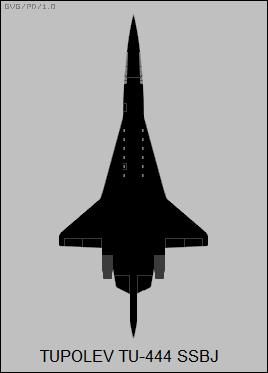 Top silhouette view of the proposed Tupolev Tu-444 supersonic business jet.